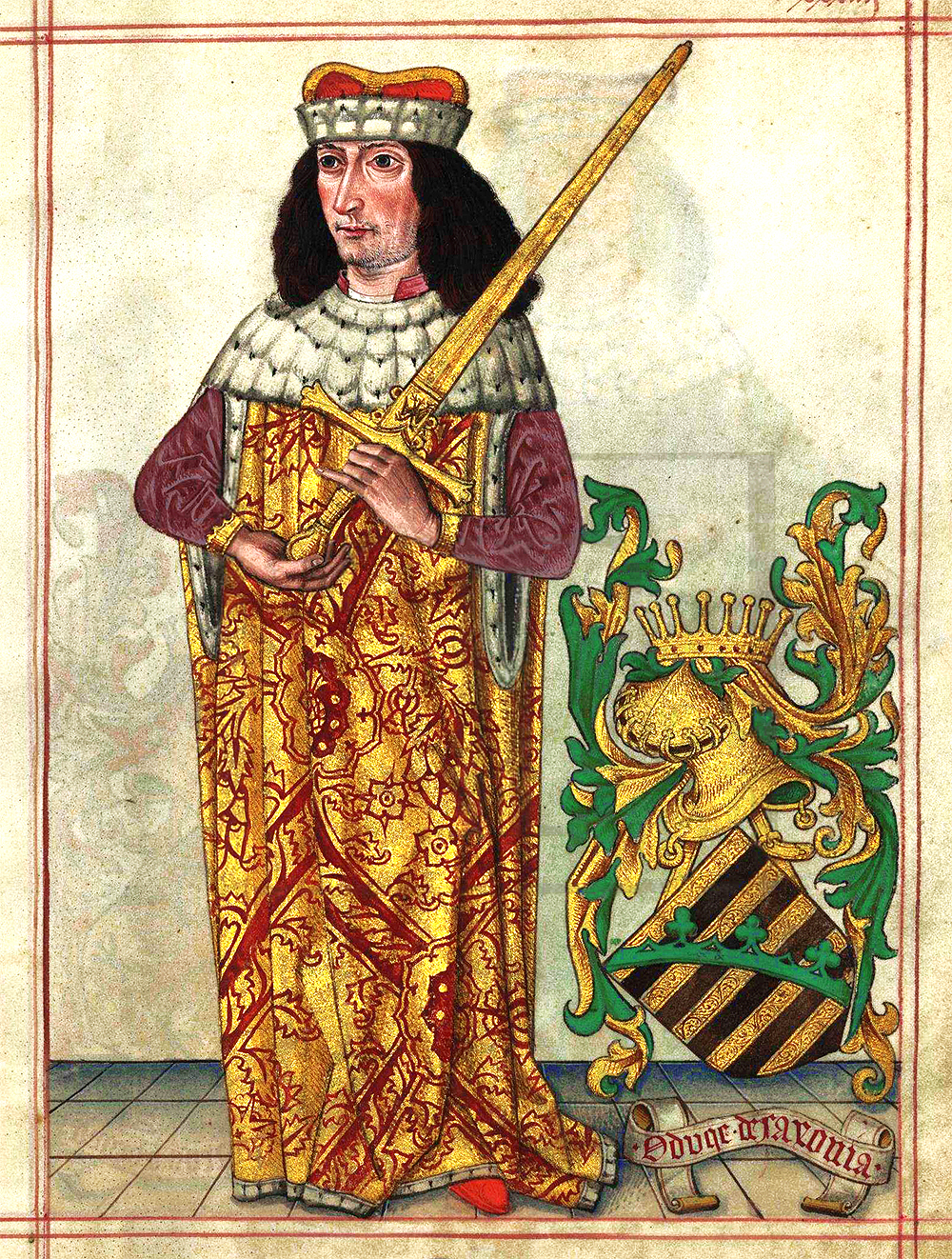 Duke of Saxonia